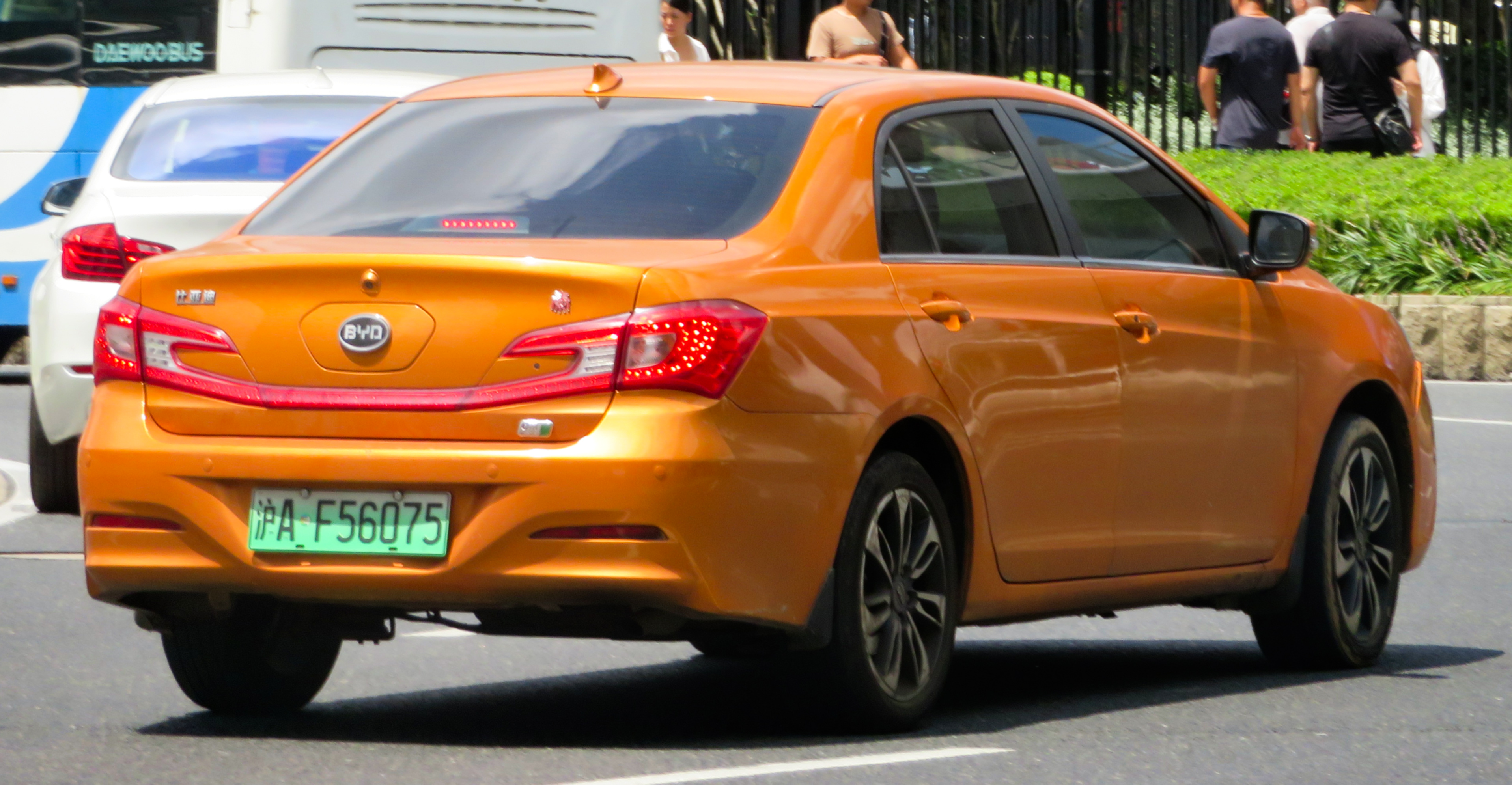 A 2016 BYD Qin photographed at Oriental Pearl Tower roundabout intersection, in Pudong district, Shanghai, China